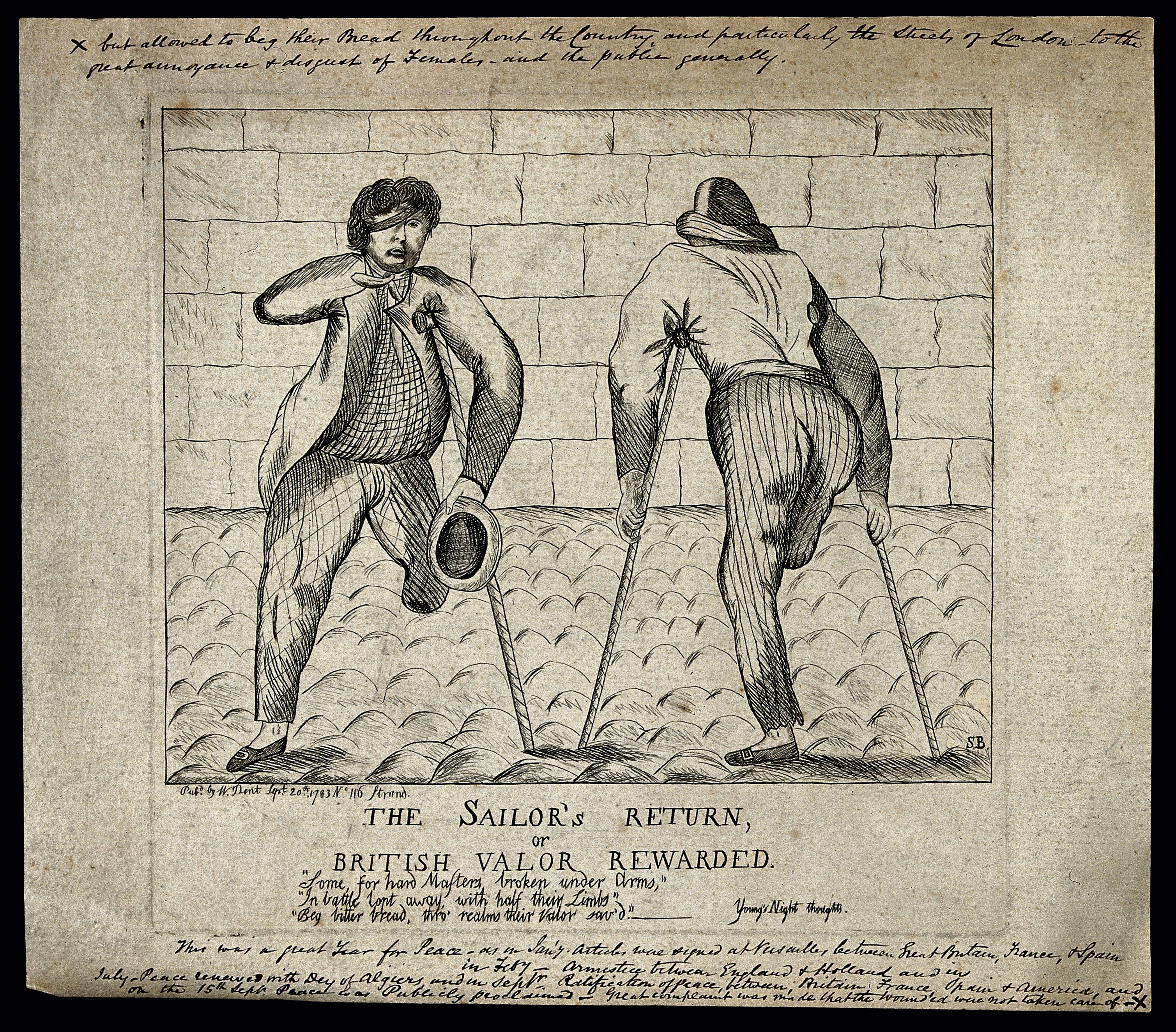 Two sailors with amputated legs, an eyepatch and an amputated arm moving with the aid of crutches. Etching by S.B., 1783. Iconographic Collections Keywords: S. B.; Edward Young